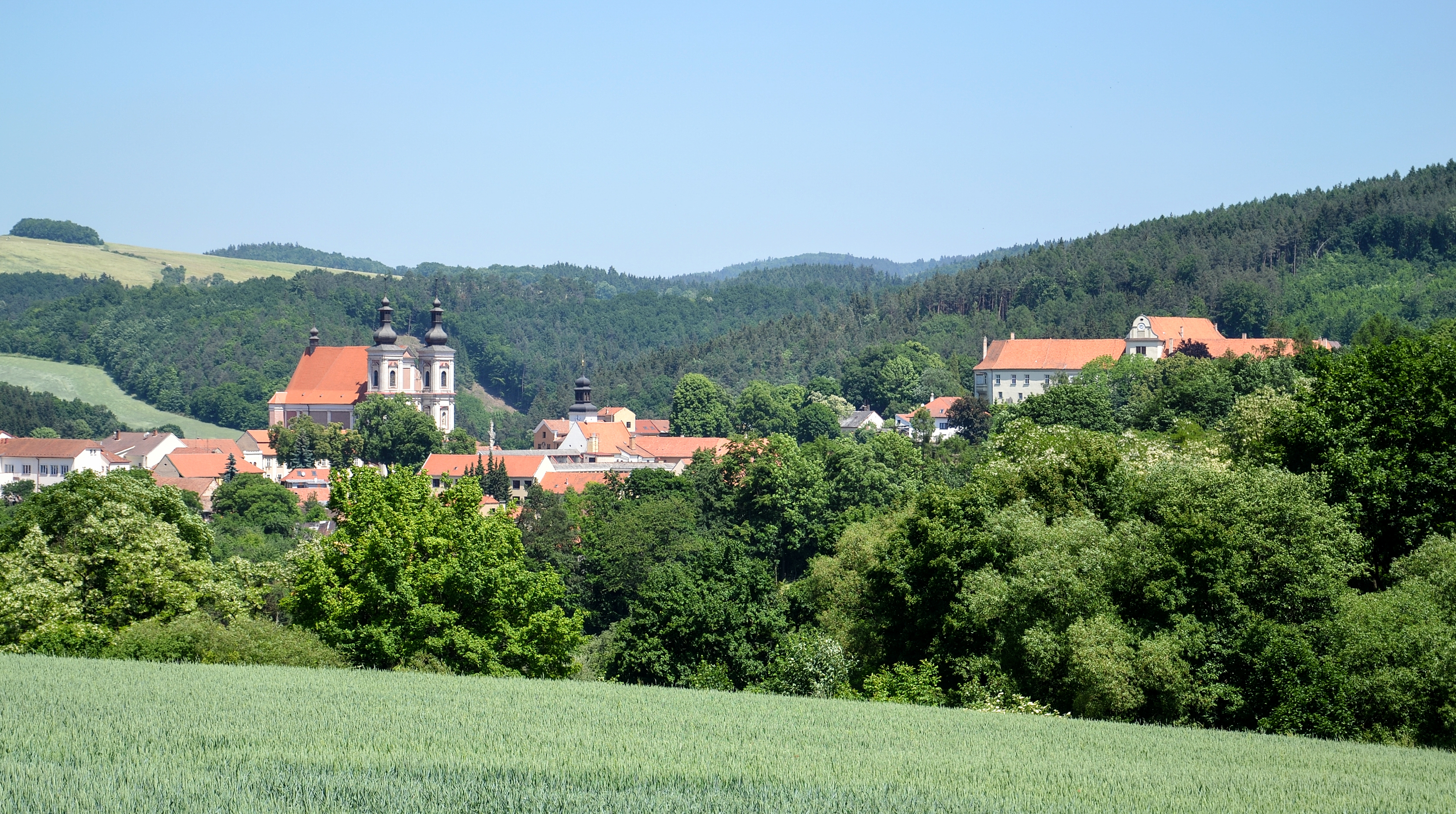 Lomnice (Lomnitz), Moravia